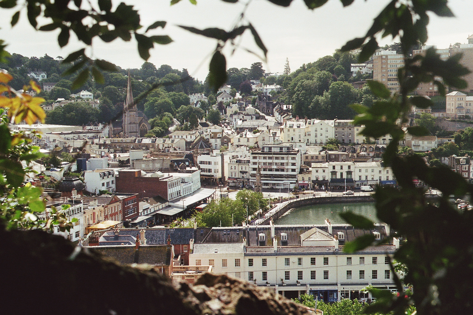 Torquay harbour view from above